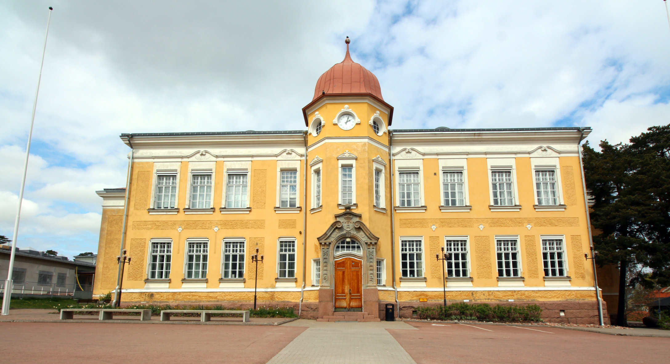 Ålands lyceum, school building, Mariehamn, Åland (Finland)